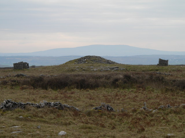 Poulawack Burial Cairn. First Phase c.3350BC. Second Phase c.2000BC.